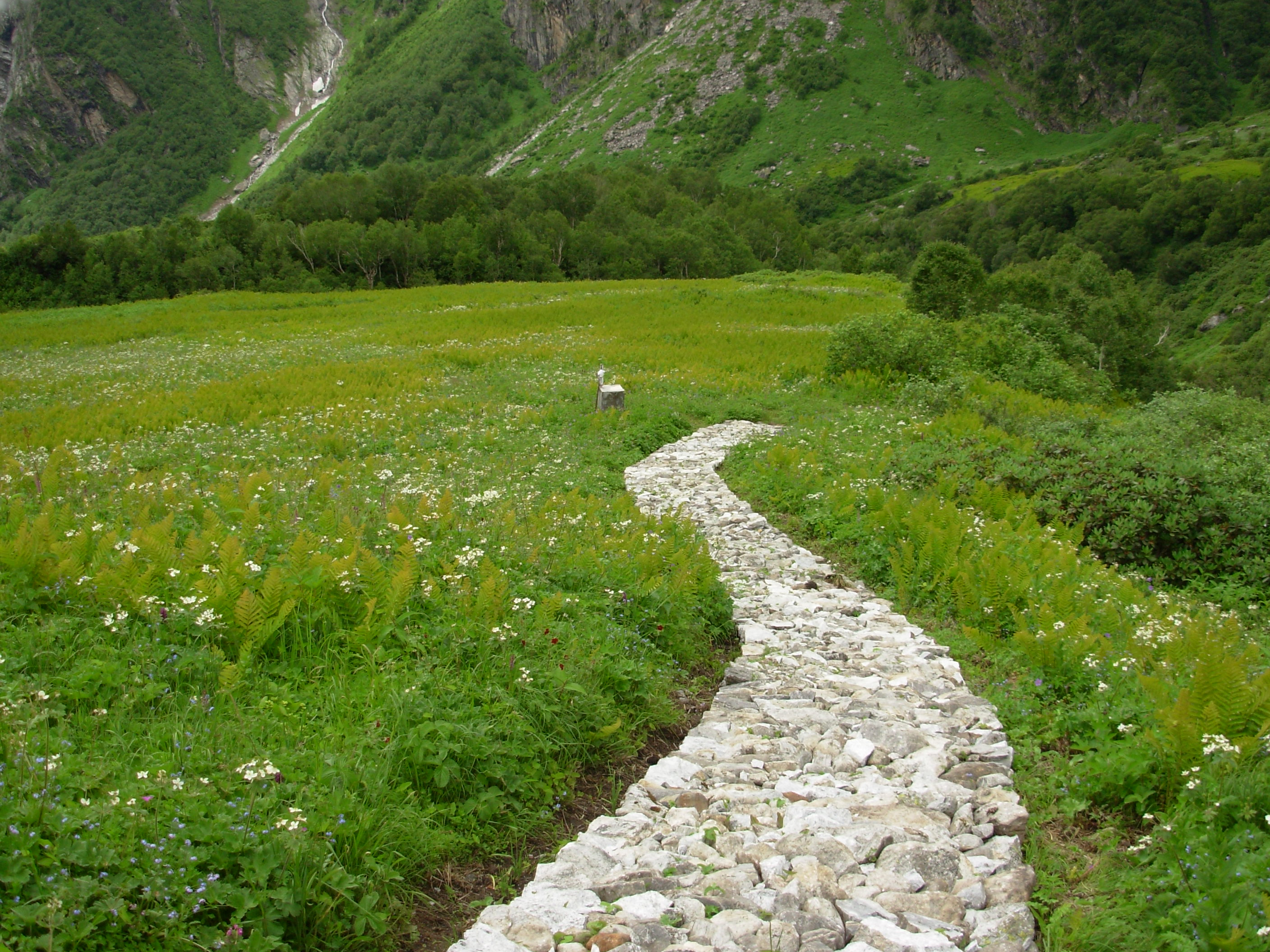 A picturesome landscape near legge's grave in the vally of flowers